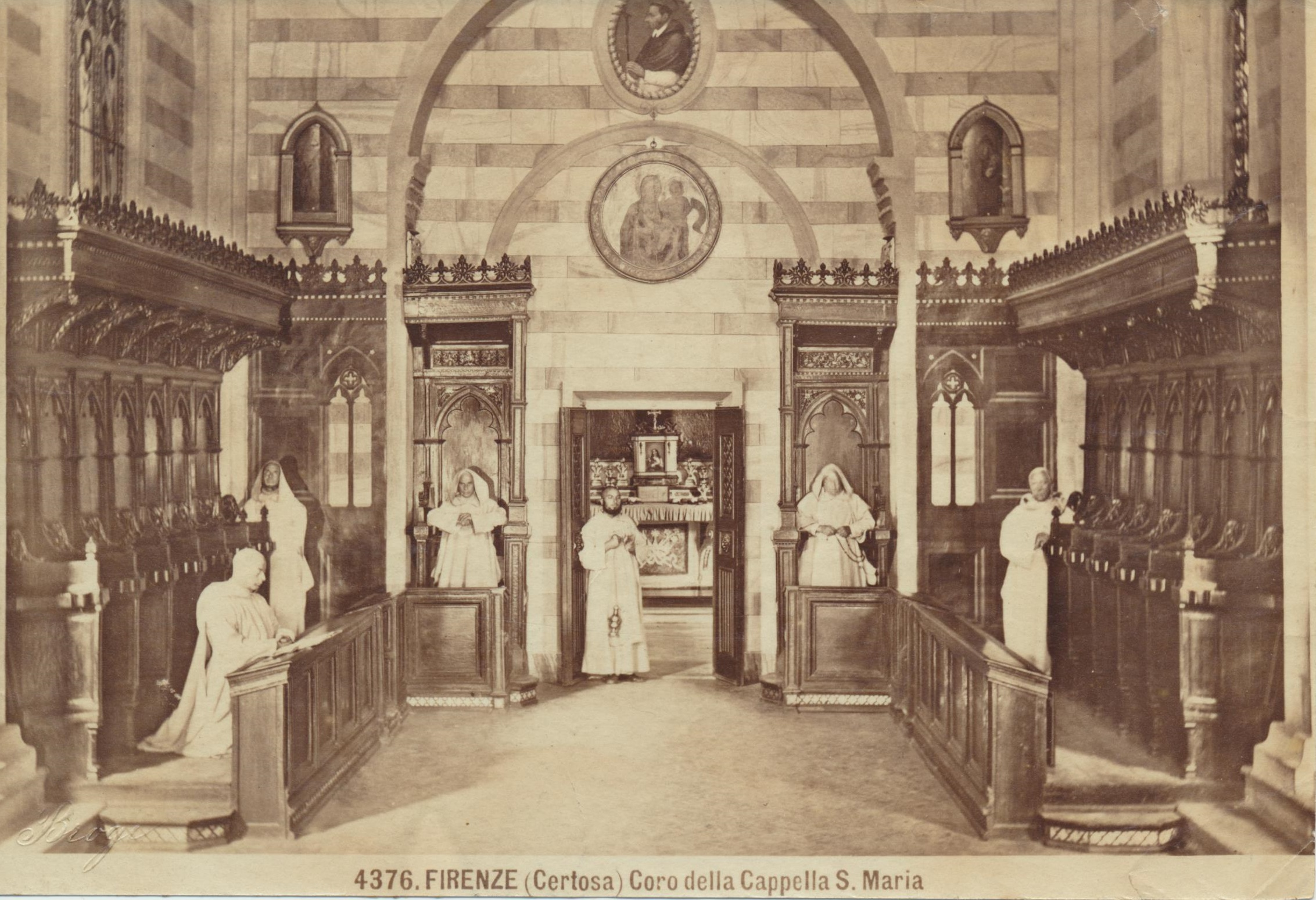 Florence, Certosa, Charterhouse, chapel, sepia photo no later than 1878